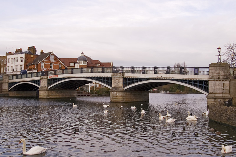 Windsor Town Bridge source: WyrdLight .